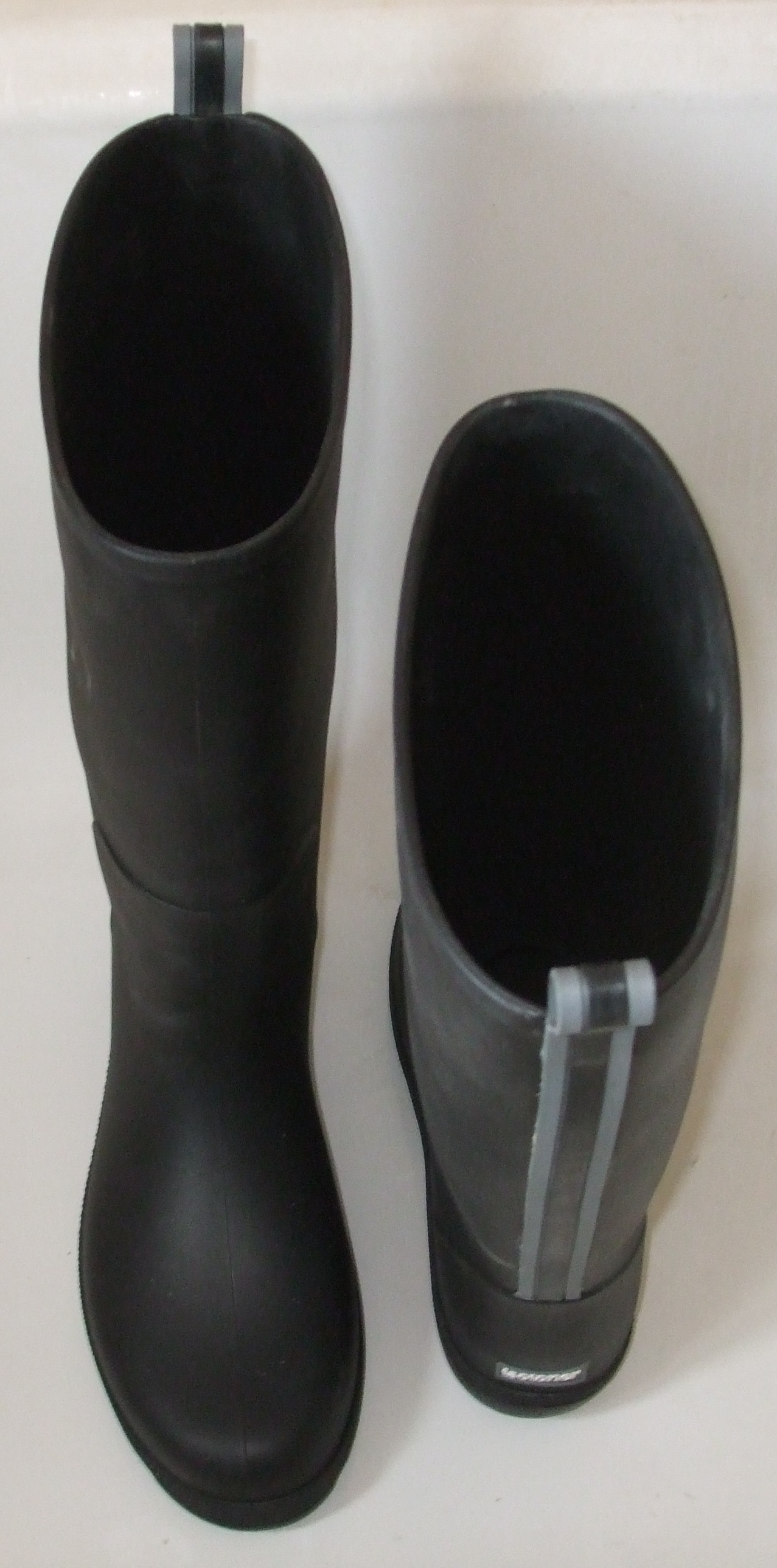 In late 2019, Totes Isotoner of Cincinnati, Ohio, USA introduced its "tough as boots, light as clouds" Cirrus range of ankle-height and tall lightweight compression-proof unlined washable rainboots for men, women and children. The image illustrates the tall version of this waterproof footwear.